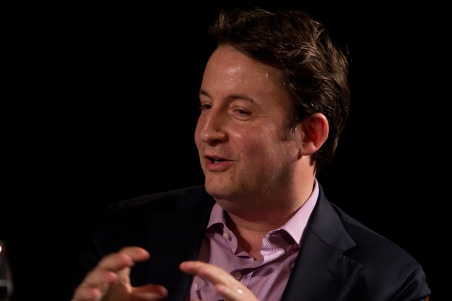 Andras Szanto in conversation with William Kentridge, Budapest Museum of Fine Arts, October 5, 2011